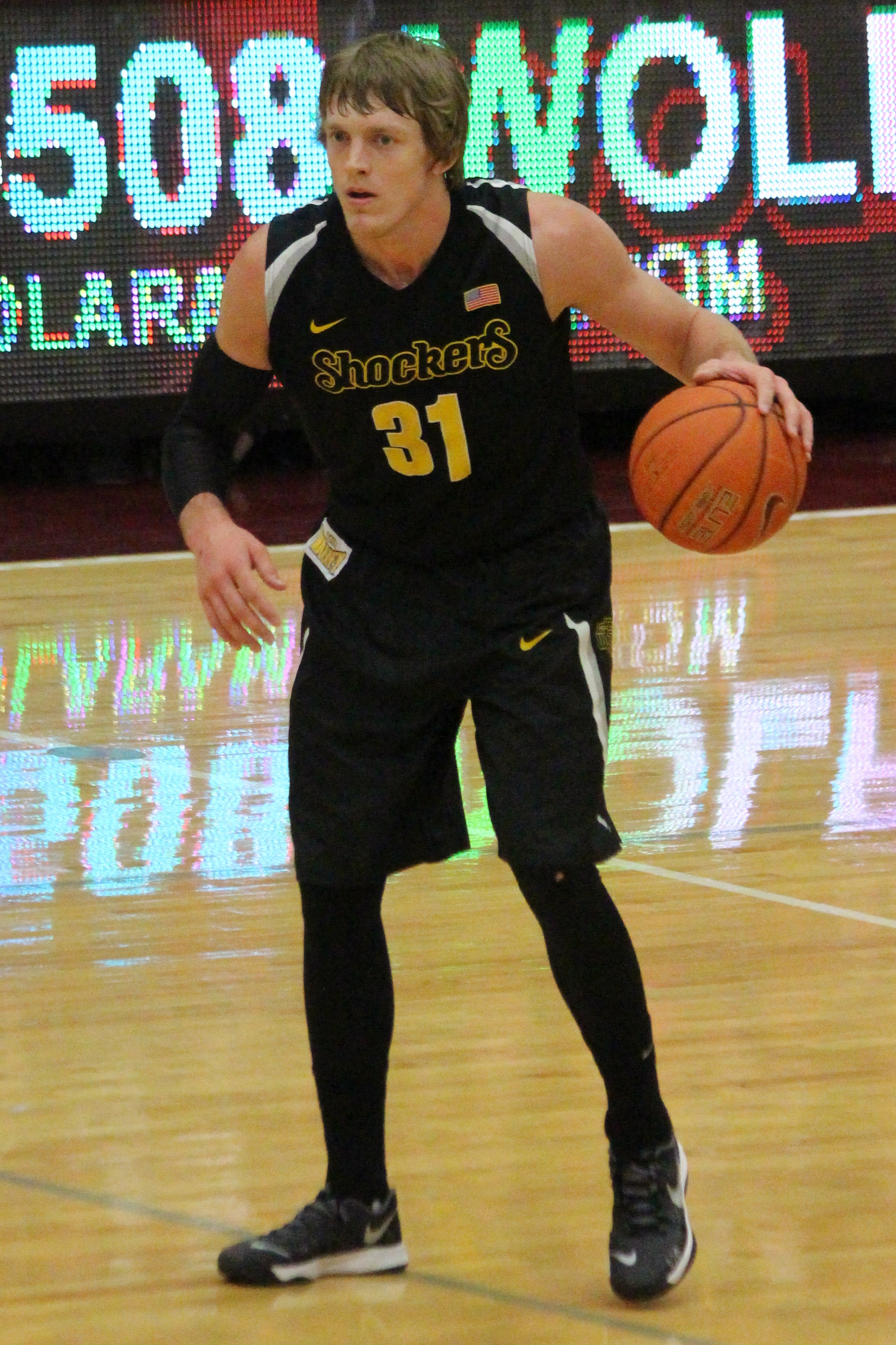 Ron Baker for the w:2014–15 Wichita State Shockers men's basketball team at the Joseph J. Gentile Arena